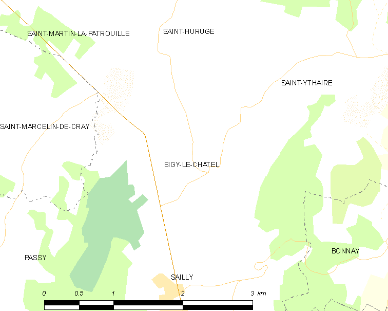 Map of French municipality